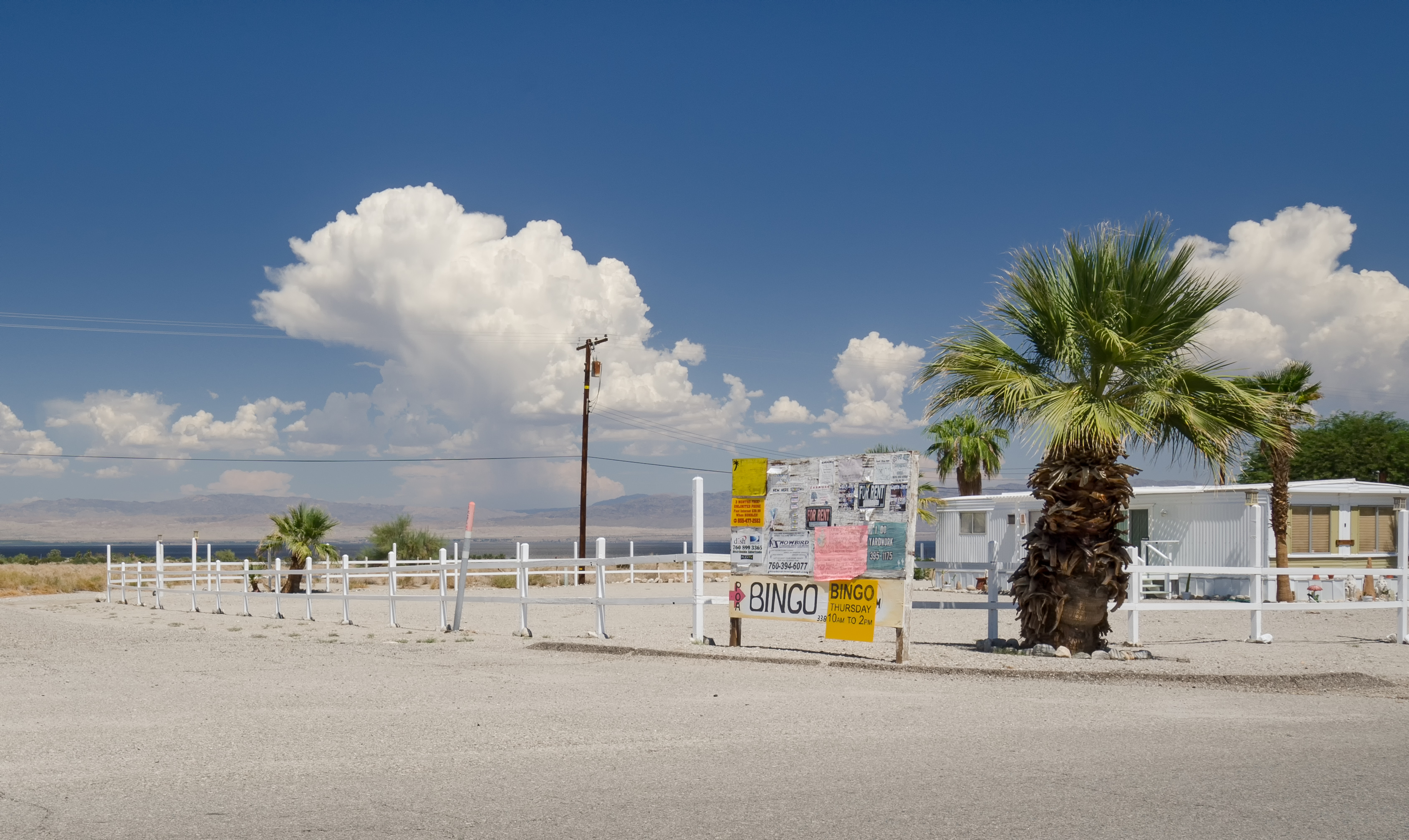 Blackboard at CDP Salton Sea Beach with information for bingo evenings and houses for rent